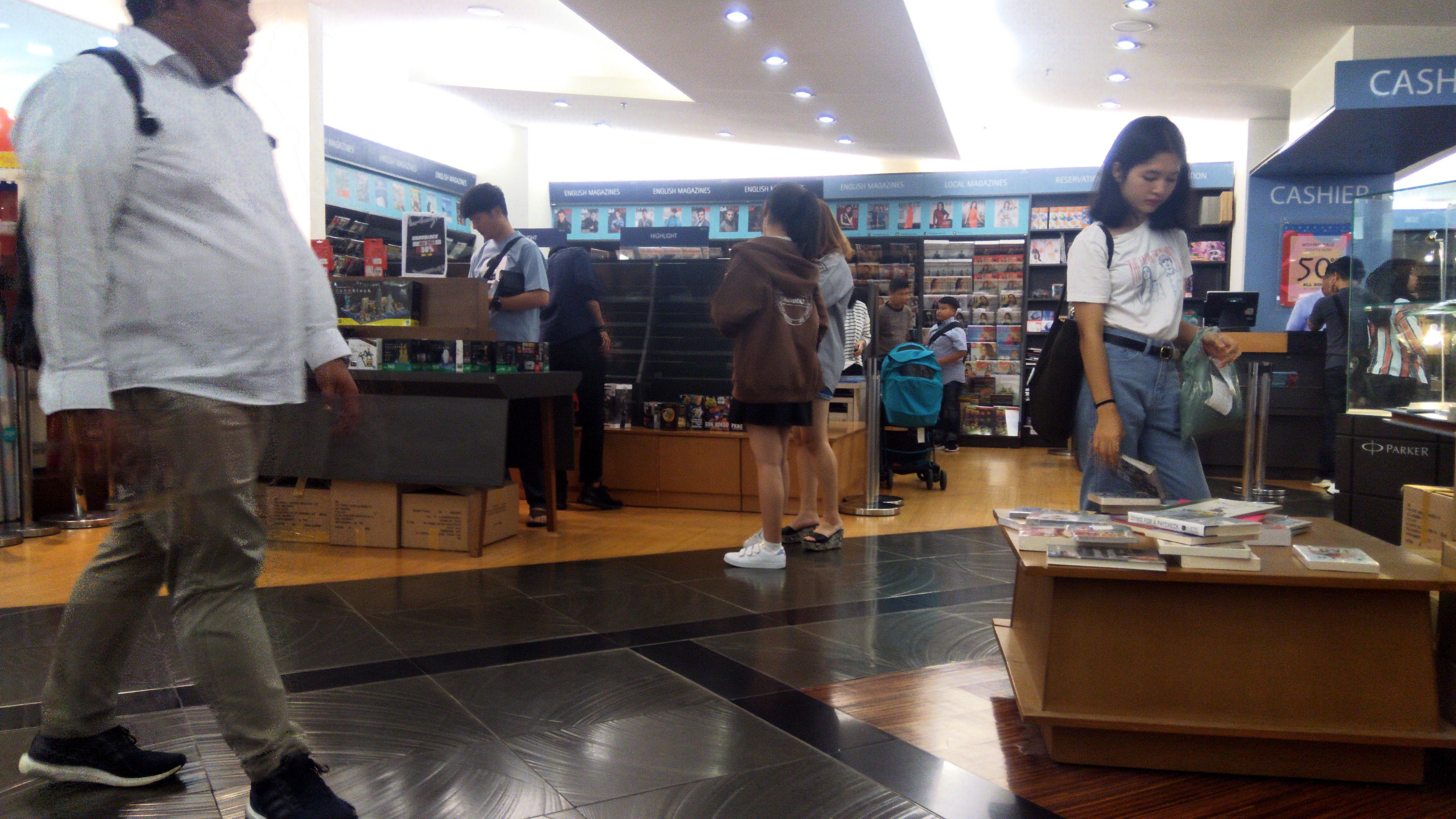 Customers looking around for books and toys during the final day of this branch, all unsold items would be moved to other branches.